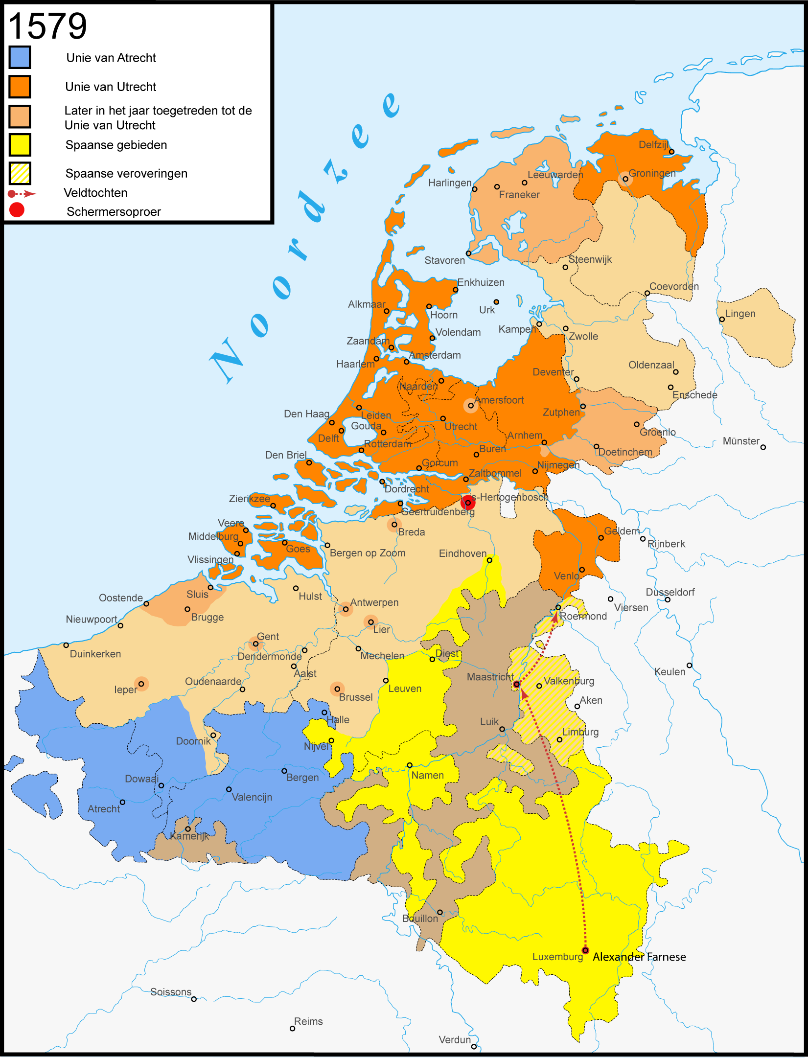 Warprogression in het Eighty Years' War: 1579. Dutch version